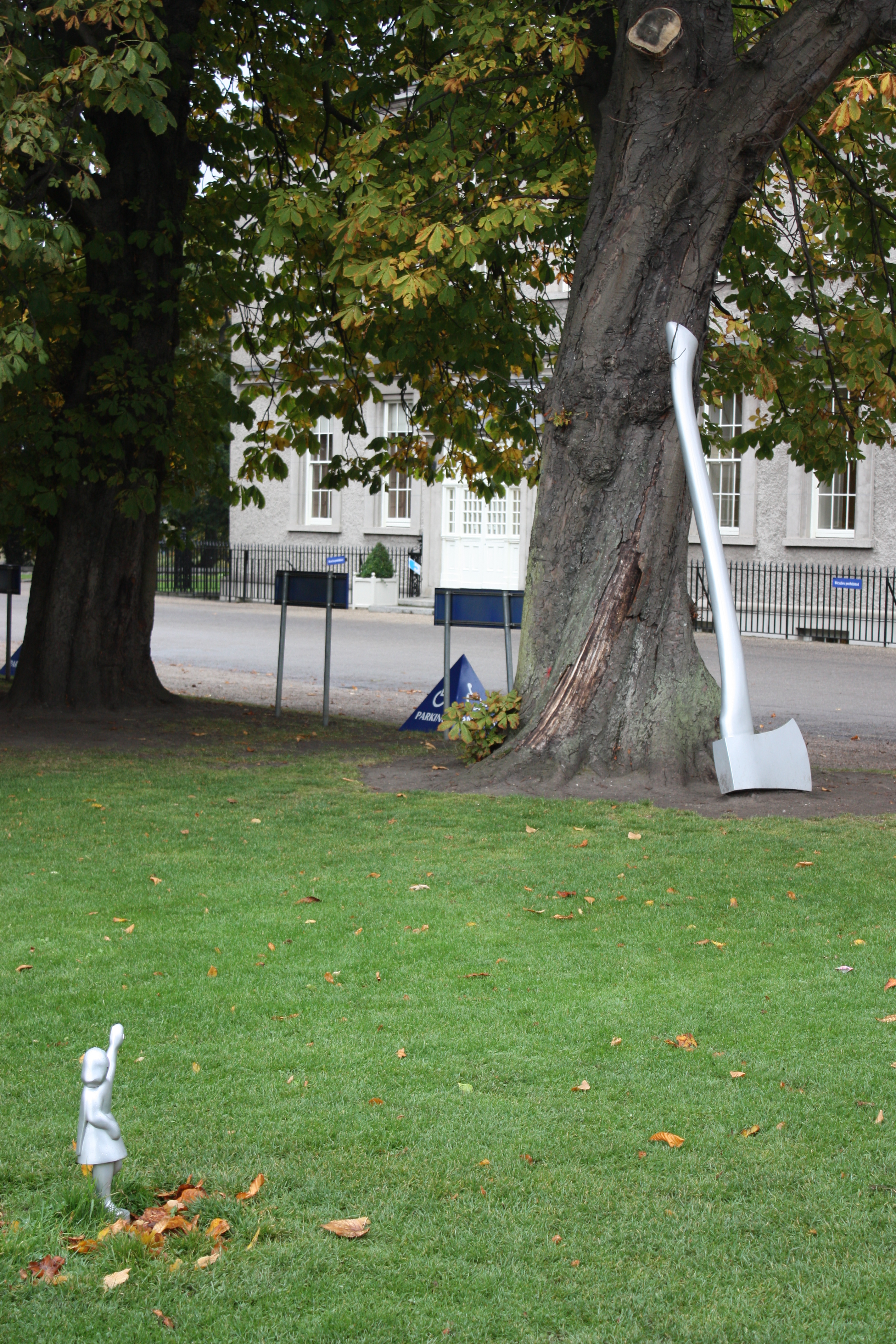 The Axe (and the Waving Girl) (sculpture by Alice Maher, 2003), Irish Museum of Modern Art, Royal Hospital, Kilmainham, Dublin, Republic of Ireland, October 2010